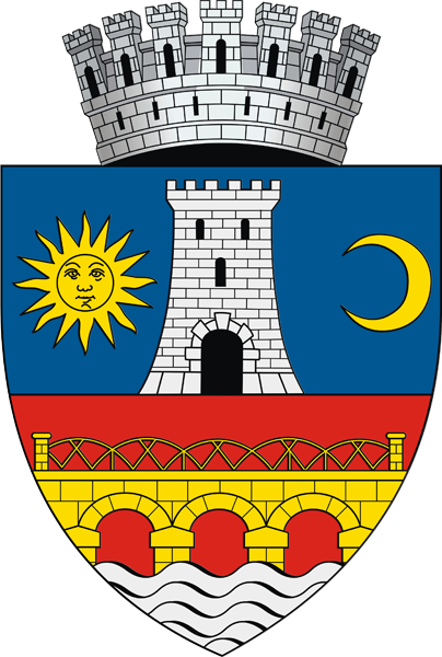 Slatina.